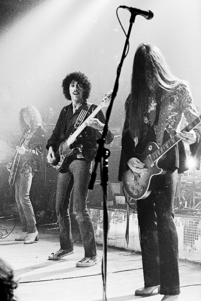 Phil Lynott with Thin Lizzy, Bradford St Georges Hall. Bad Reputation Tour 24/11/1977. L to R: Brian Robertson, Phil Lynott, Scott Gorham